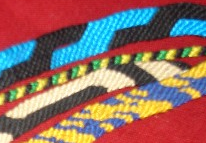 Bracelets. Friendship bracelets. Hand-woven bracelets 3, 9 and 12 strands.